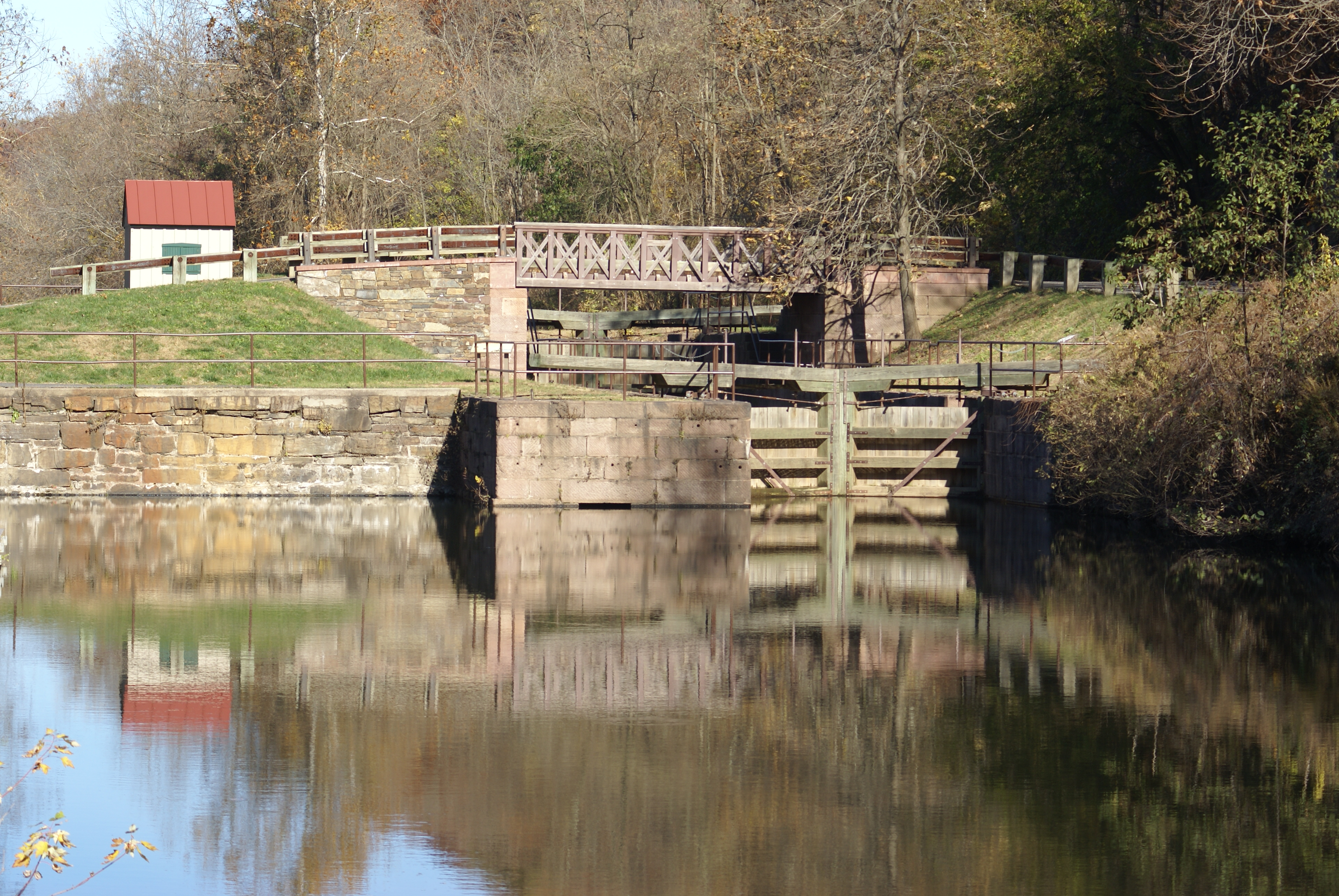 Lock 60, guard lock of the Oakes Canal of the Schuylkill Navigation. The bridge and miter gates were reconstructed in 2004-5. Lock 60 is located in Mont Clare.